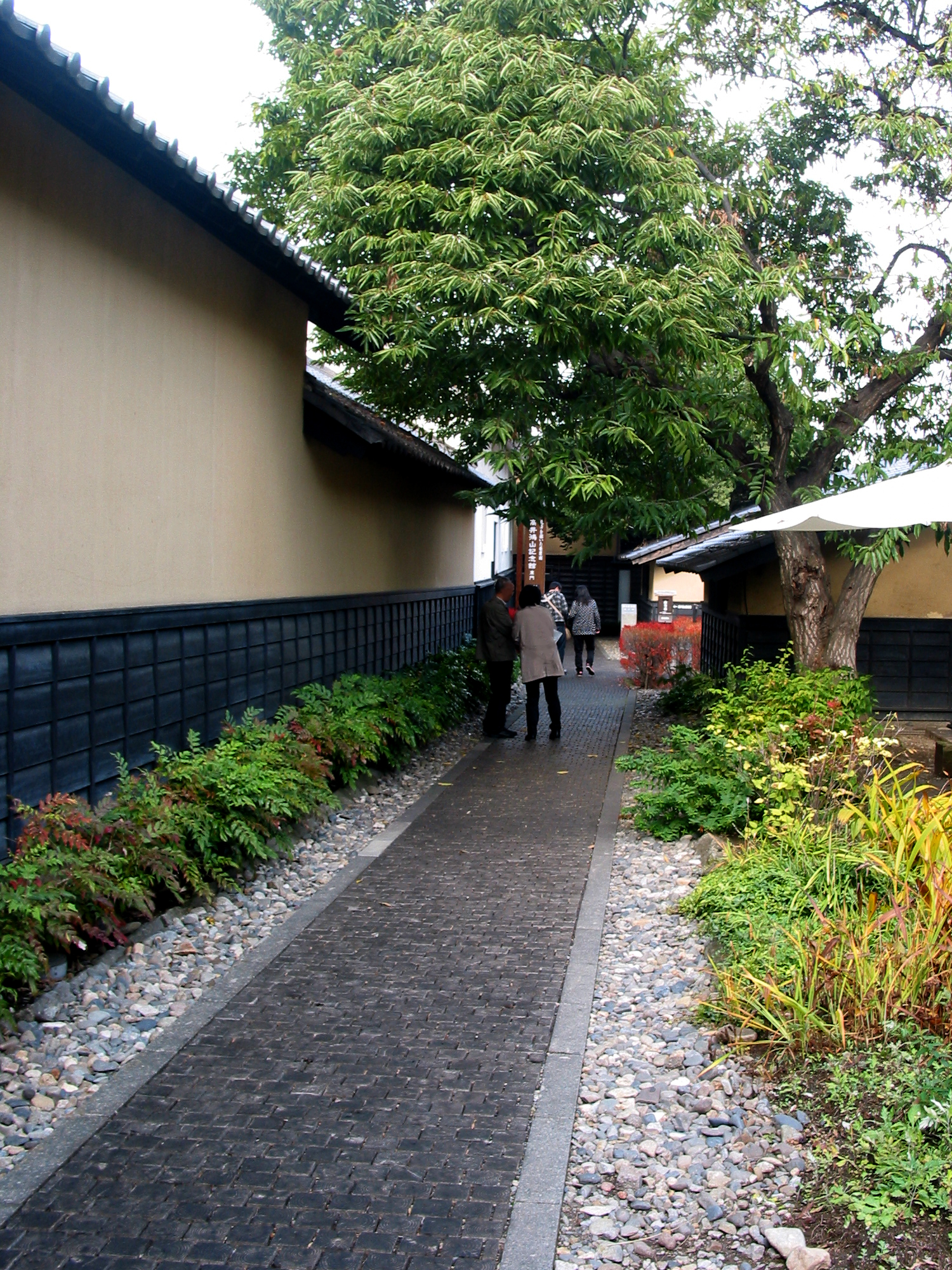 KURI NO KOMICHI : Chestnut wood block pavement (Scenery), Obuse, Nagano, Japan.